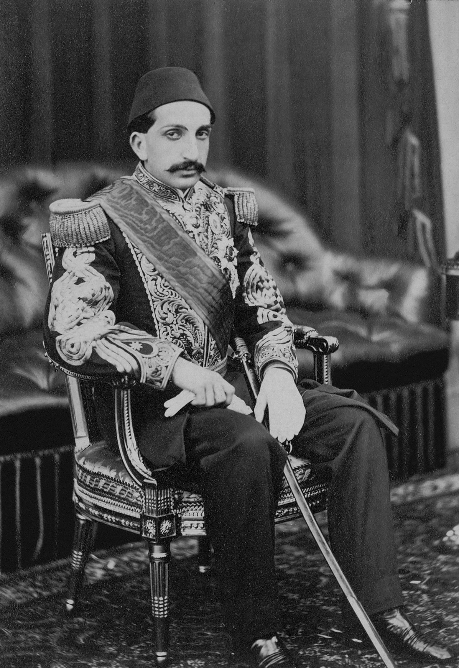 Official Portrait of Prince Abdulhamid at Balmoral Castle in 1867.